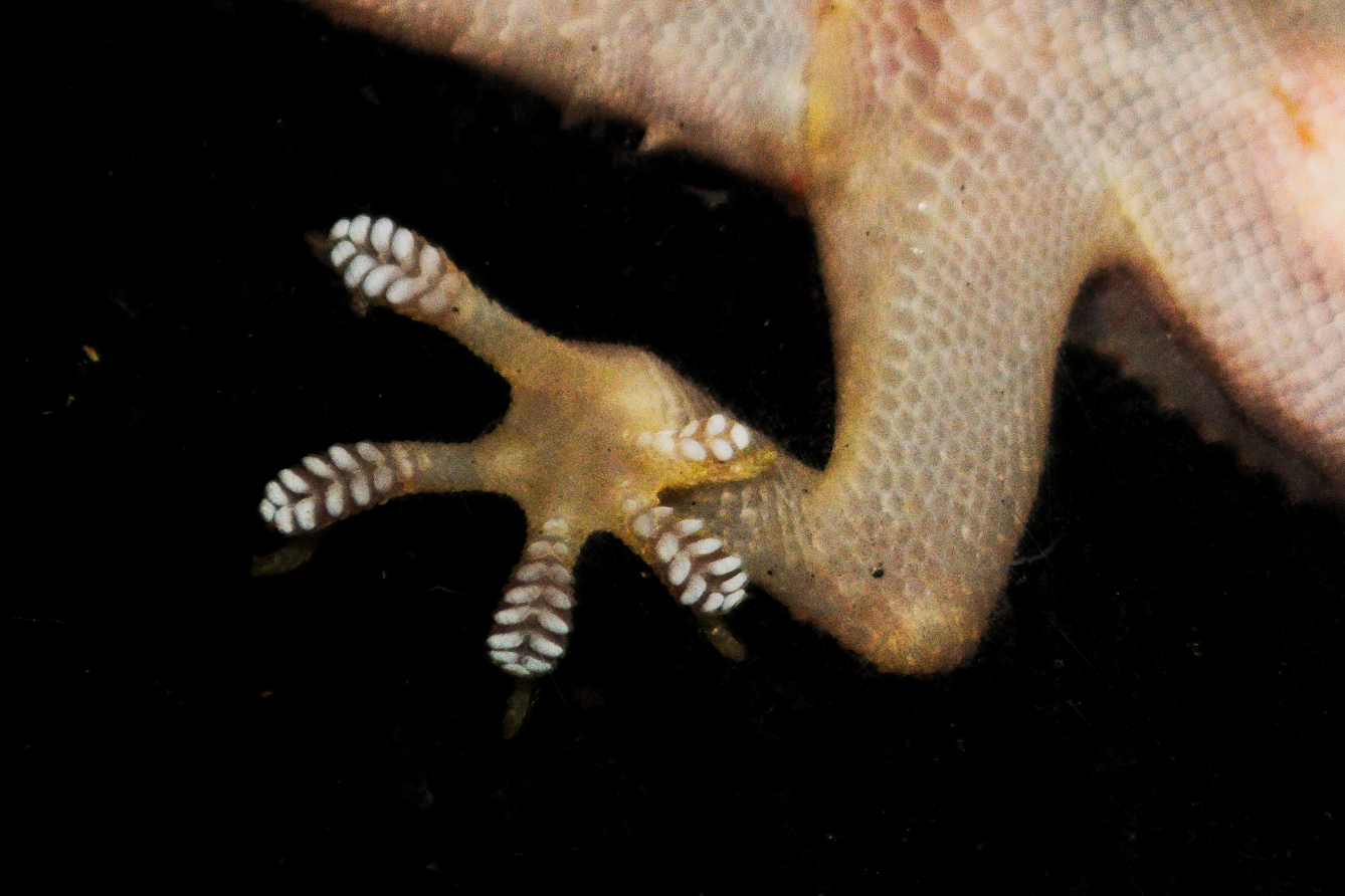 Detail of a young Gecko, image taken on the Island of Tinharé, Brazil.